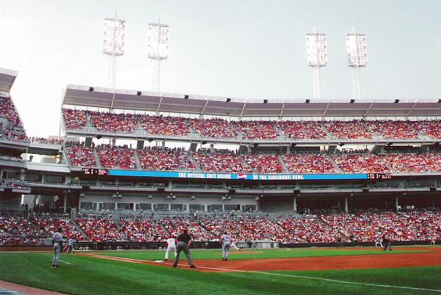 20:01, 6 March 2004 . . Rdikeman . . 639×427 (62,444 bytes) (Great American Ball Park, Cincinnati, 2003, by Rick Dikeman)